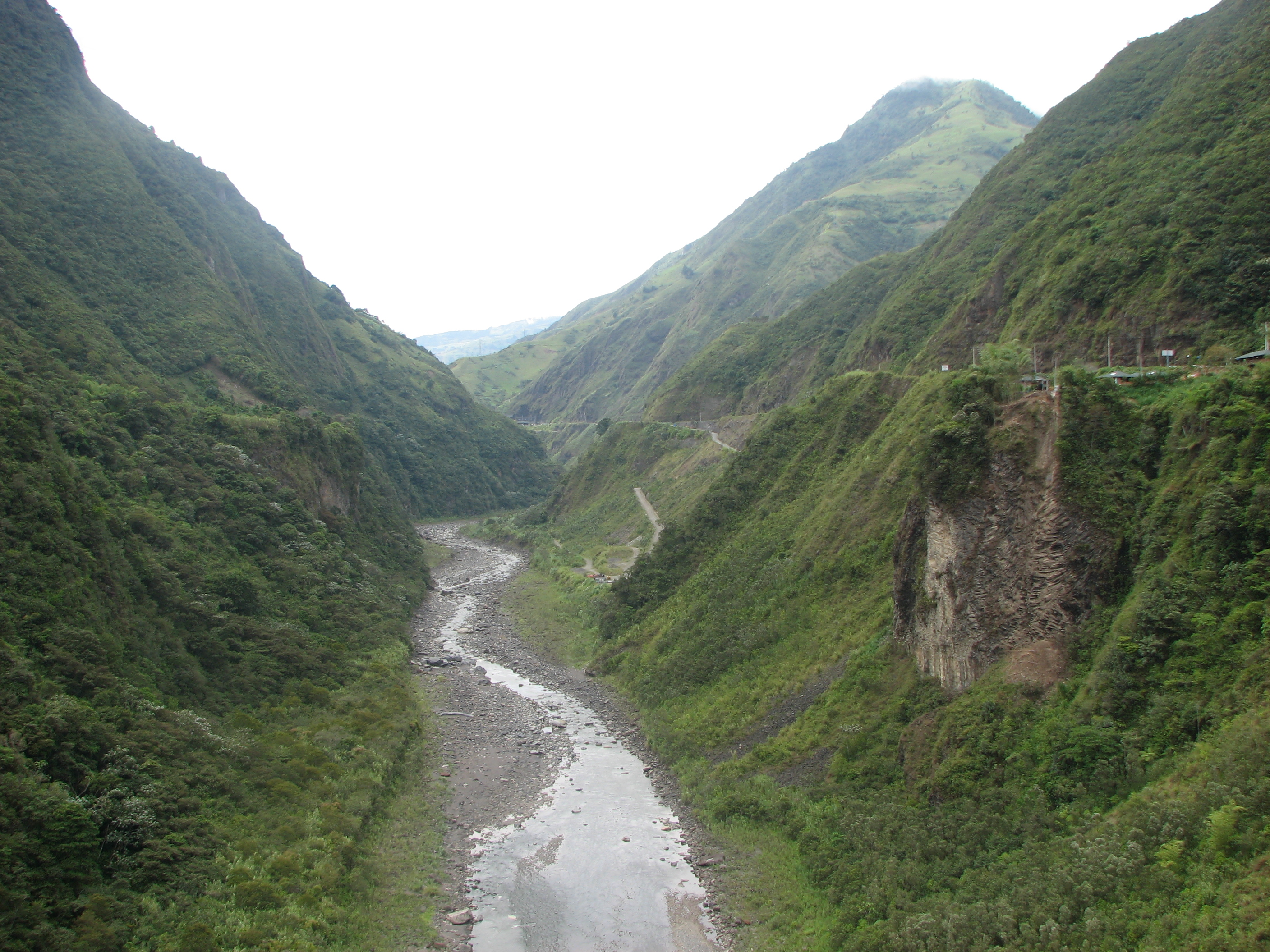 Rio Pastaza, Baños, Ecuador